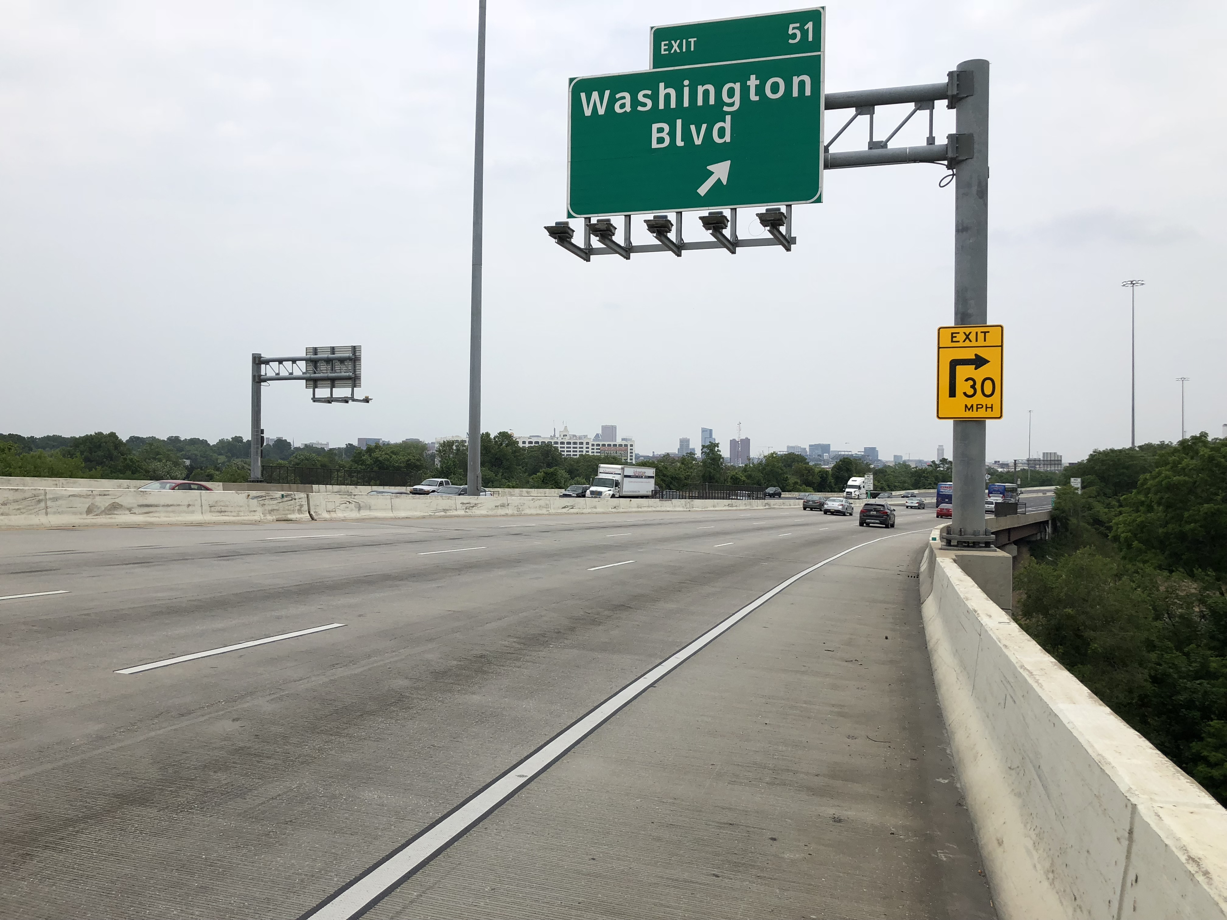 View north along Interstate 95 at Exit 51 (Washington Boulevard) in Baltimore City, Maryland